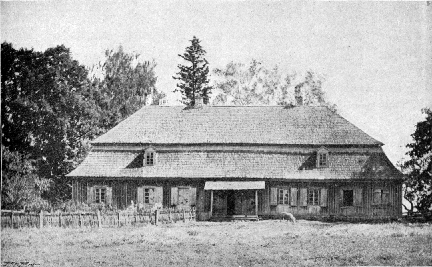 Manor in Hiejstuny